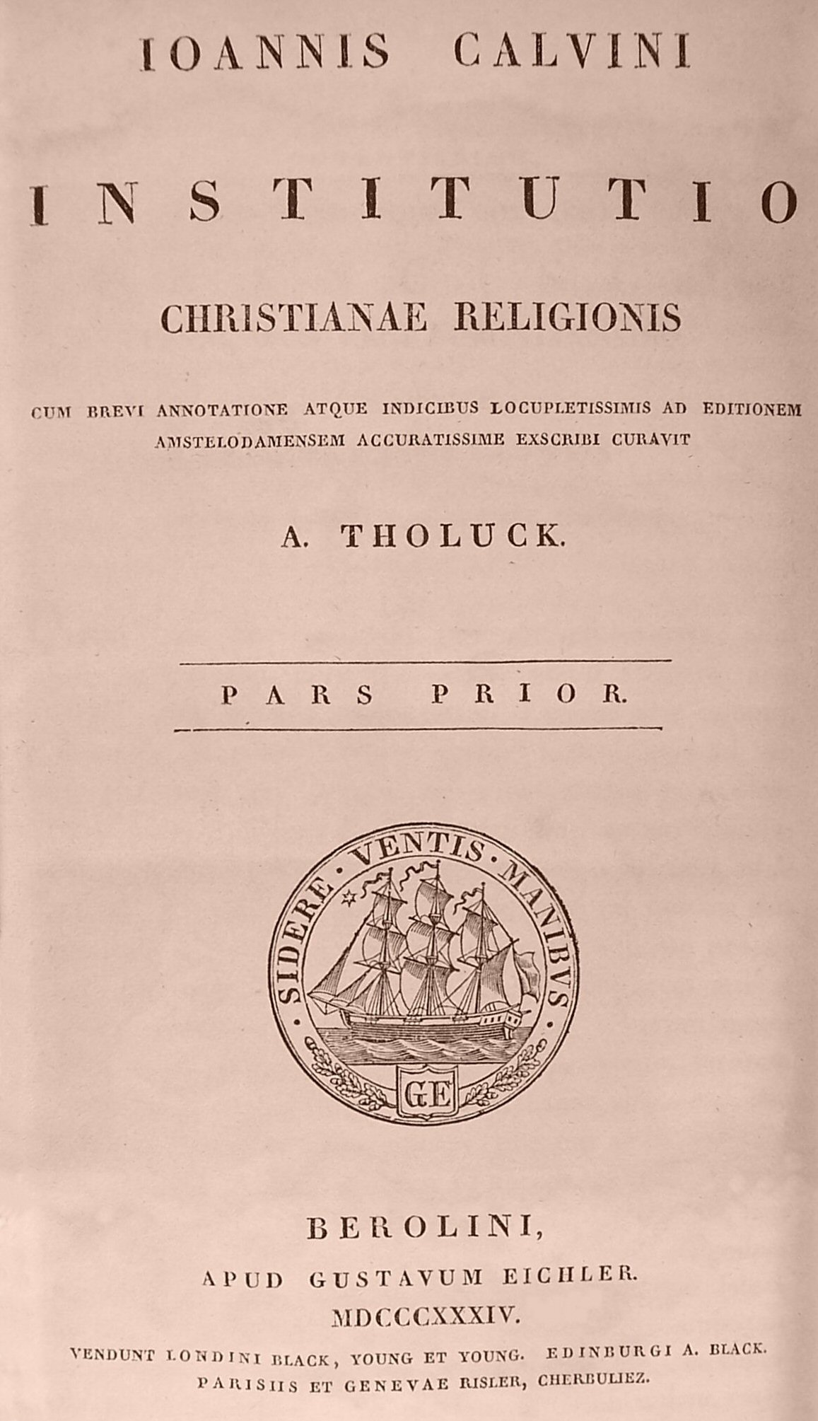 Title page of Institutio Christianae Religionis published by Gustave Eichler